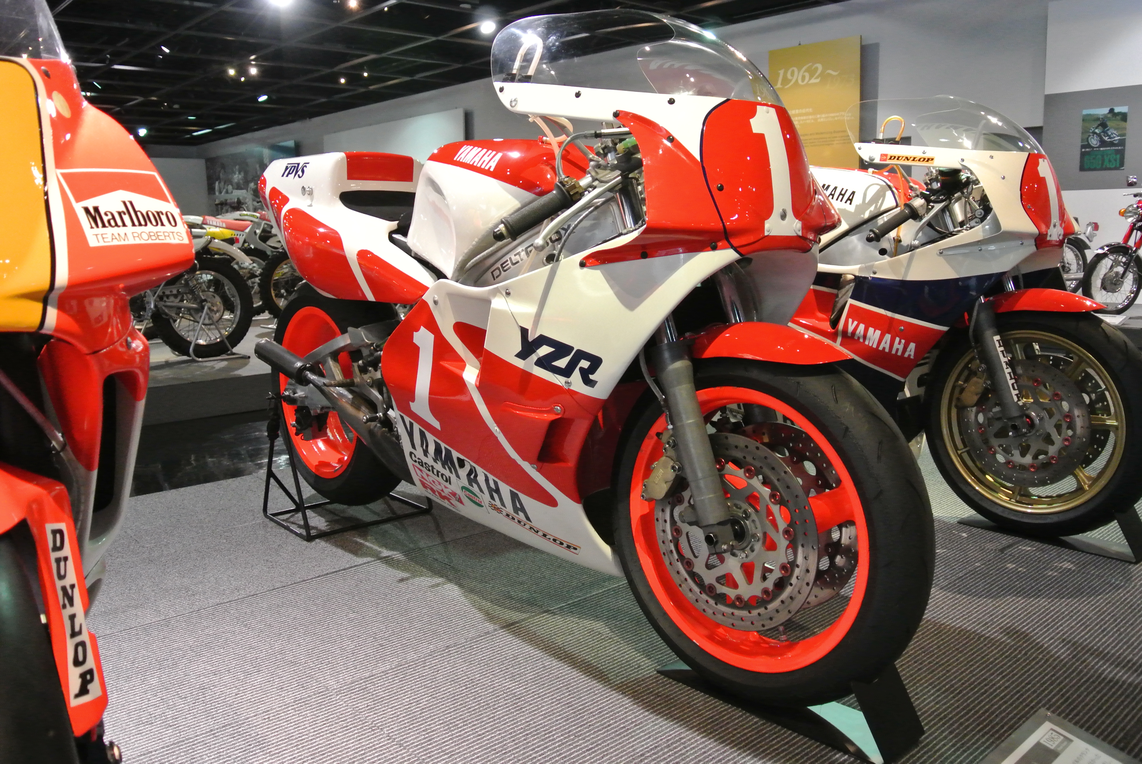 1985 Yamaha YZR500 (OW81) in the Yamaha Communication Plaza.